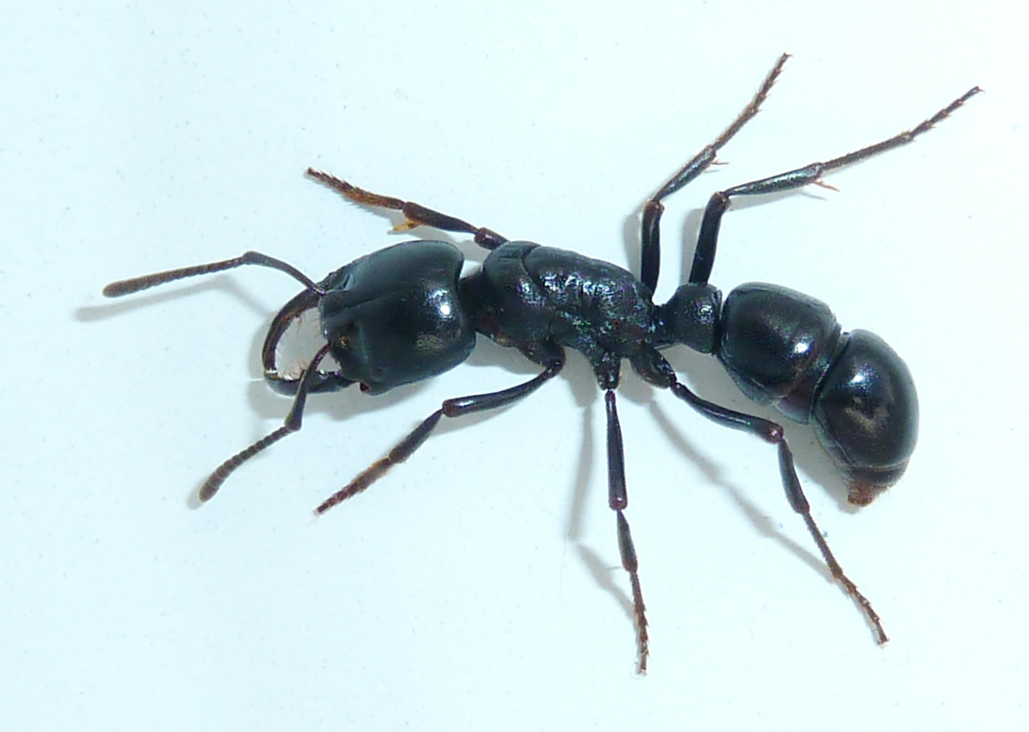 Plectroctena mandibularis worker ant found on the lawn of a farm homestead near Tweeling, Free State